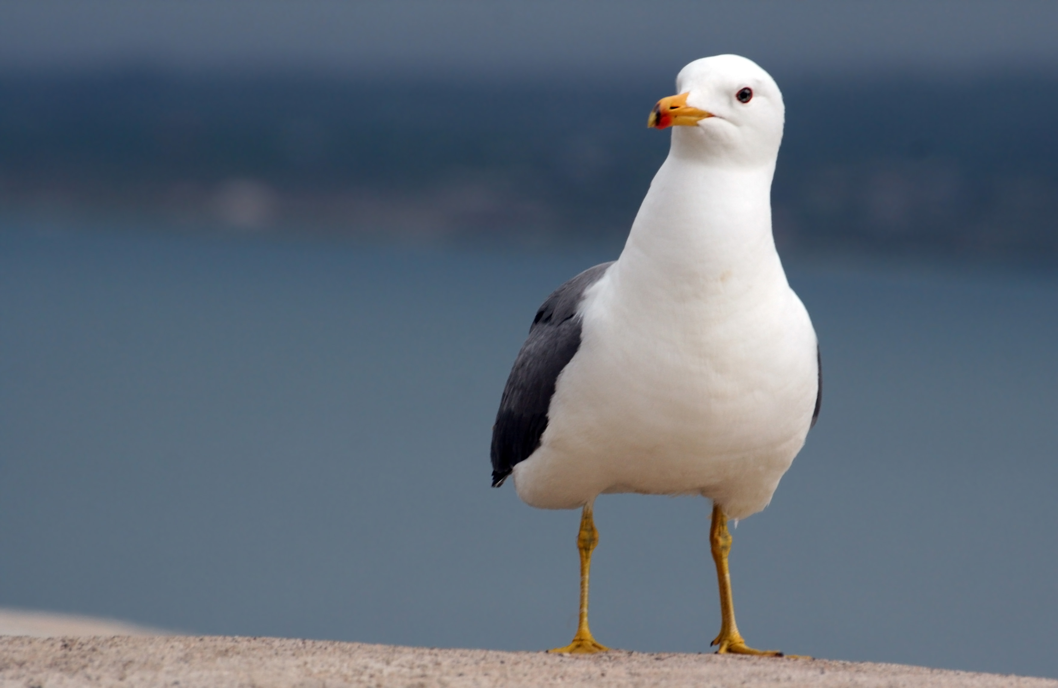 Armenian Gull (Larus armenicus) standing, front view